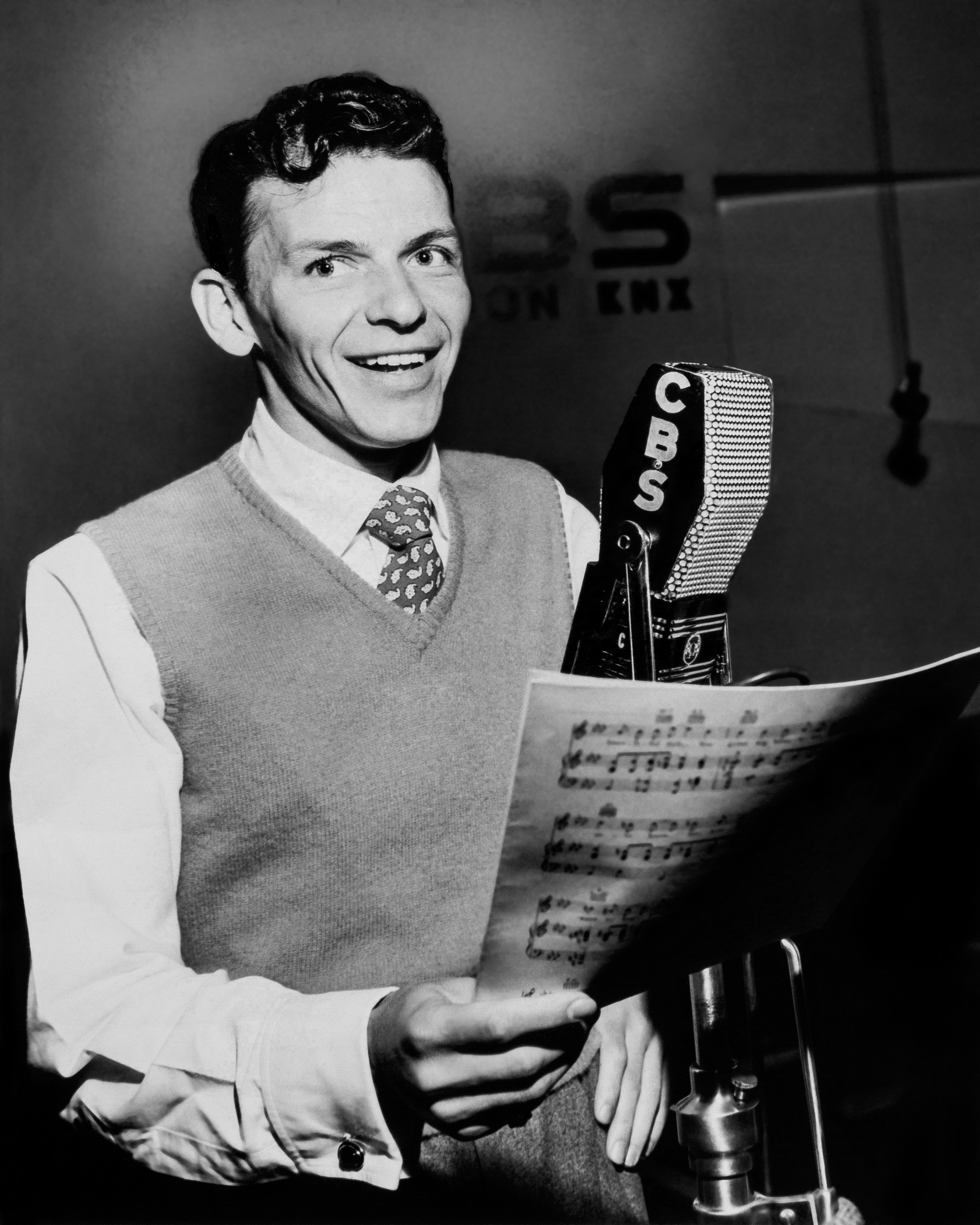 Publicity photo of Frank Sinatra in 1944 with a CBS microphone, promoting The Frank Sinatra Show on CBS Radio.